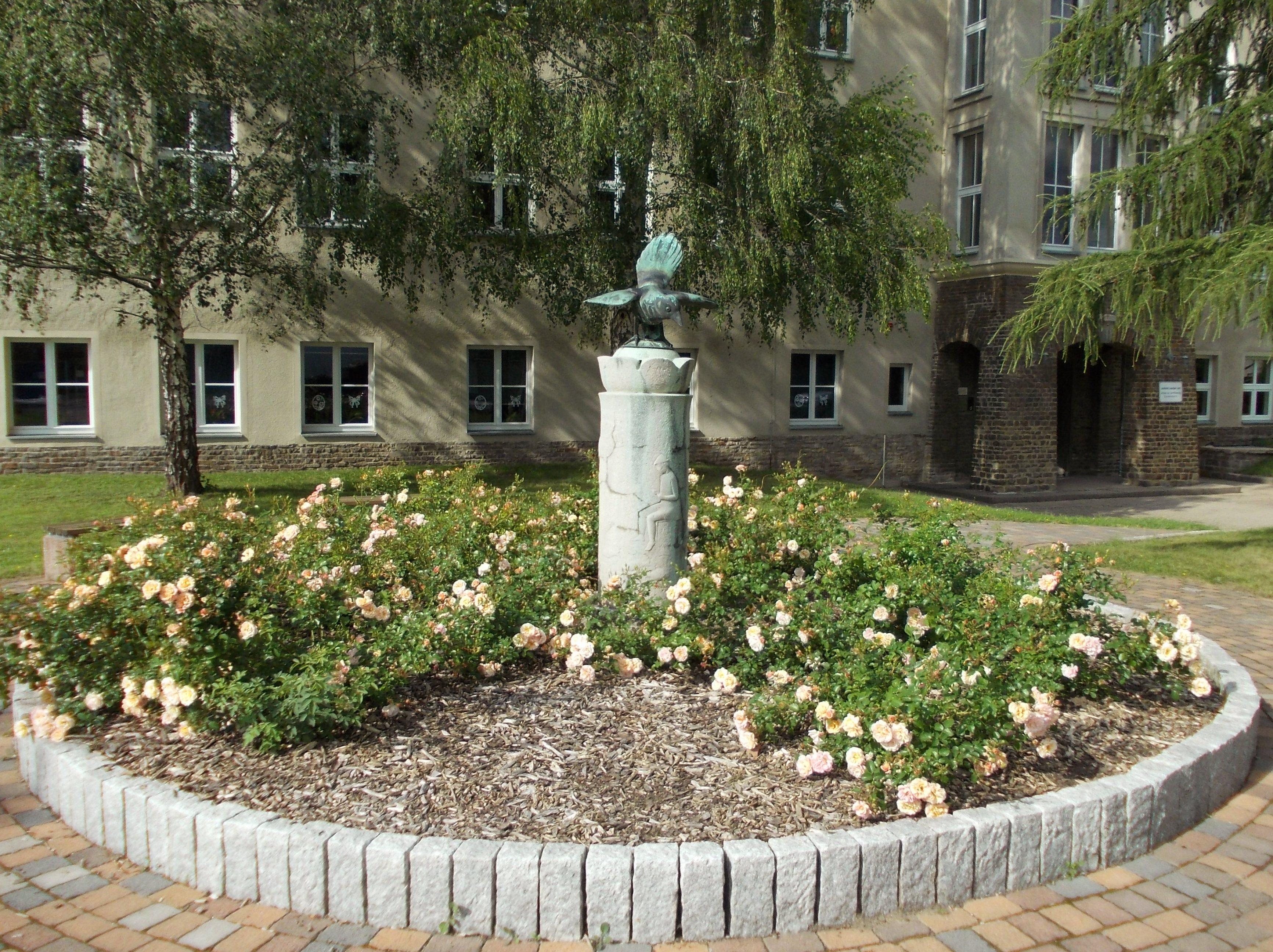 Magpie sculpture in front of the school in Elstertrebnitz (Leipzig district, Saxony)